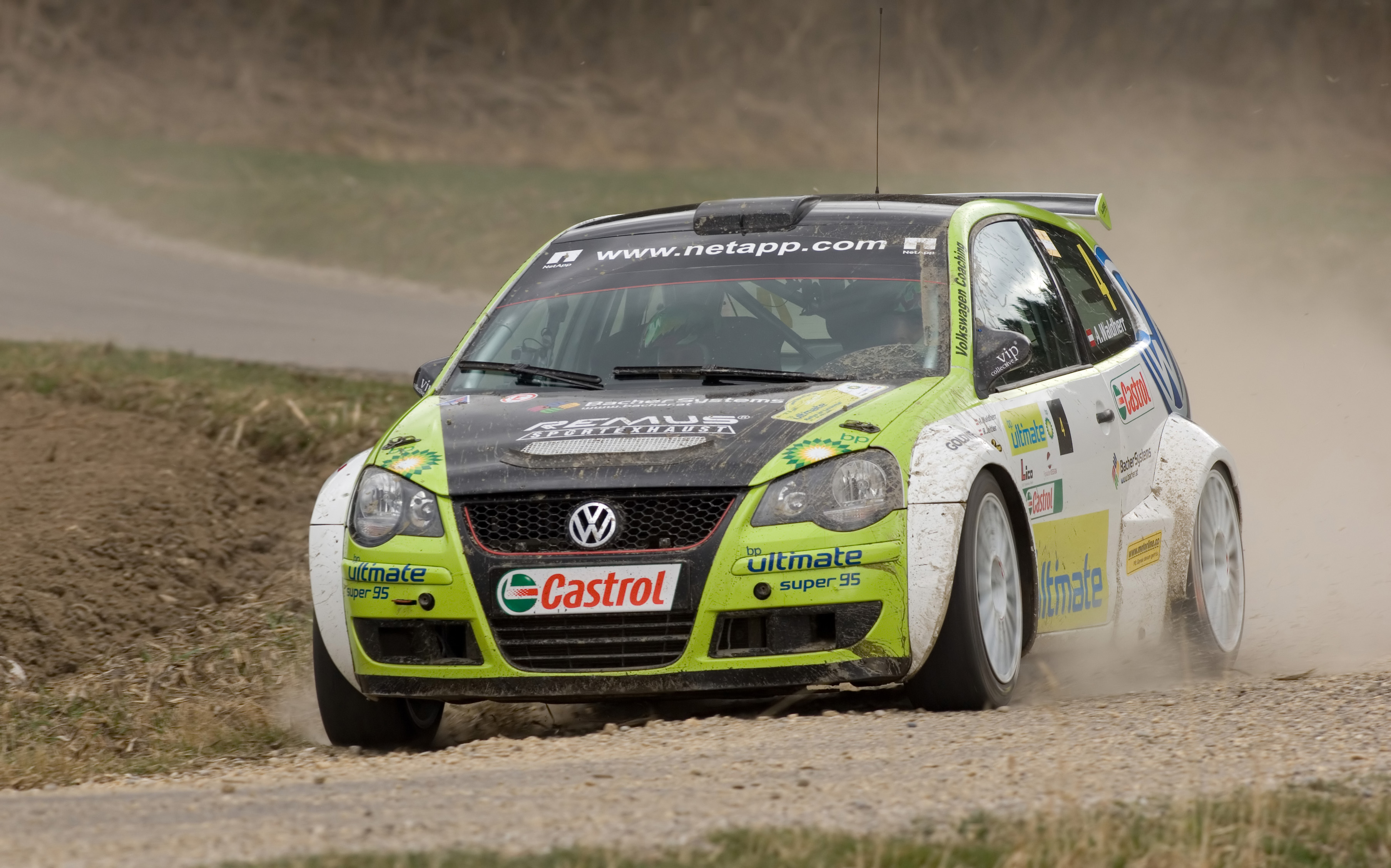 Andreas Waldherr at Lavanttal Rallye 2009 with a VW Polo S2000. Picture taken near Wolfsberg, Austria using a Nikon D2X camera and an AF-S VR Nikkor 300 mm 1:2,8 IF-ED lens. Parameters were exposure 1/350 sec, f/5, film speed ISO 200.